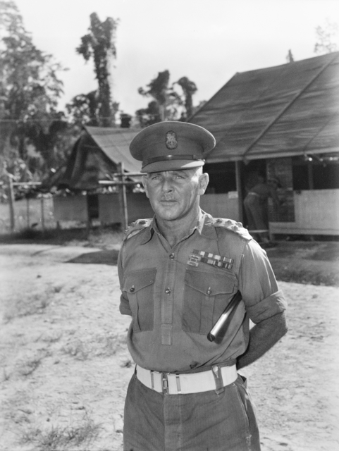 Brigadier Arnold Potts, Australian Army officer, at Torokina, Bougainville after the end of the Second World War. At the time he was the commanding officer of the Australian 23rd Brigade